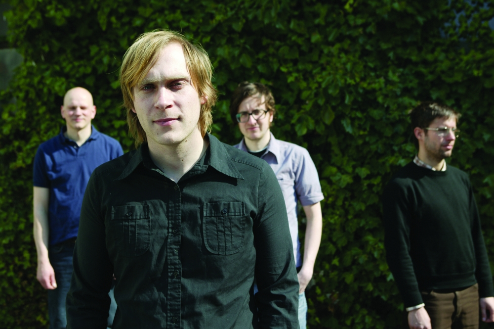 Tomte (German Band)